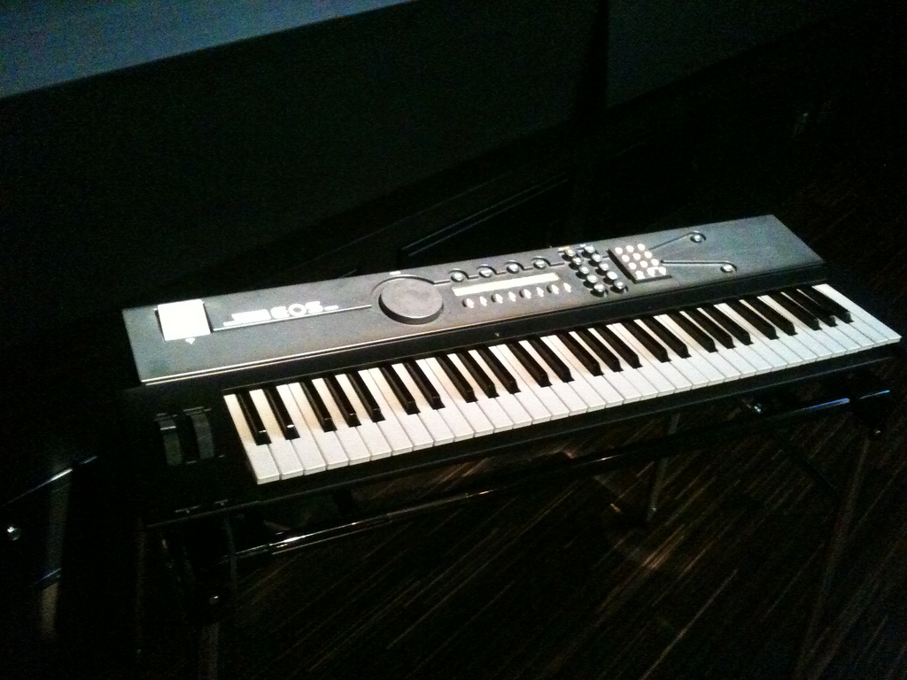 13. EOS YS200 (1988), Yamaha Design Masterworks easy operating FM synthesizer (4op FM/8parts multi-timbral sound module + 8track sequencer)